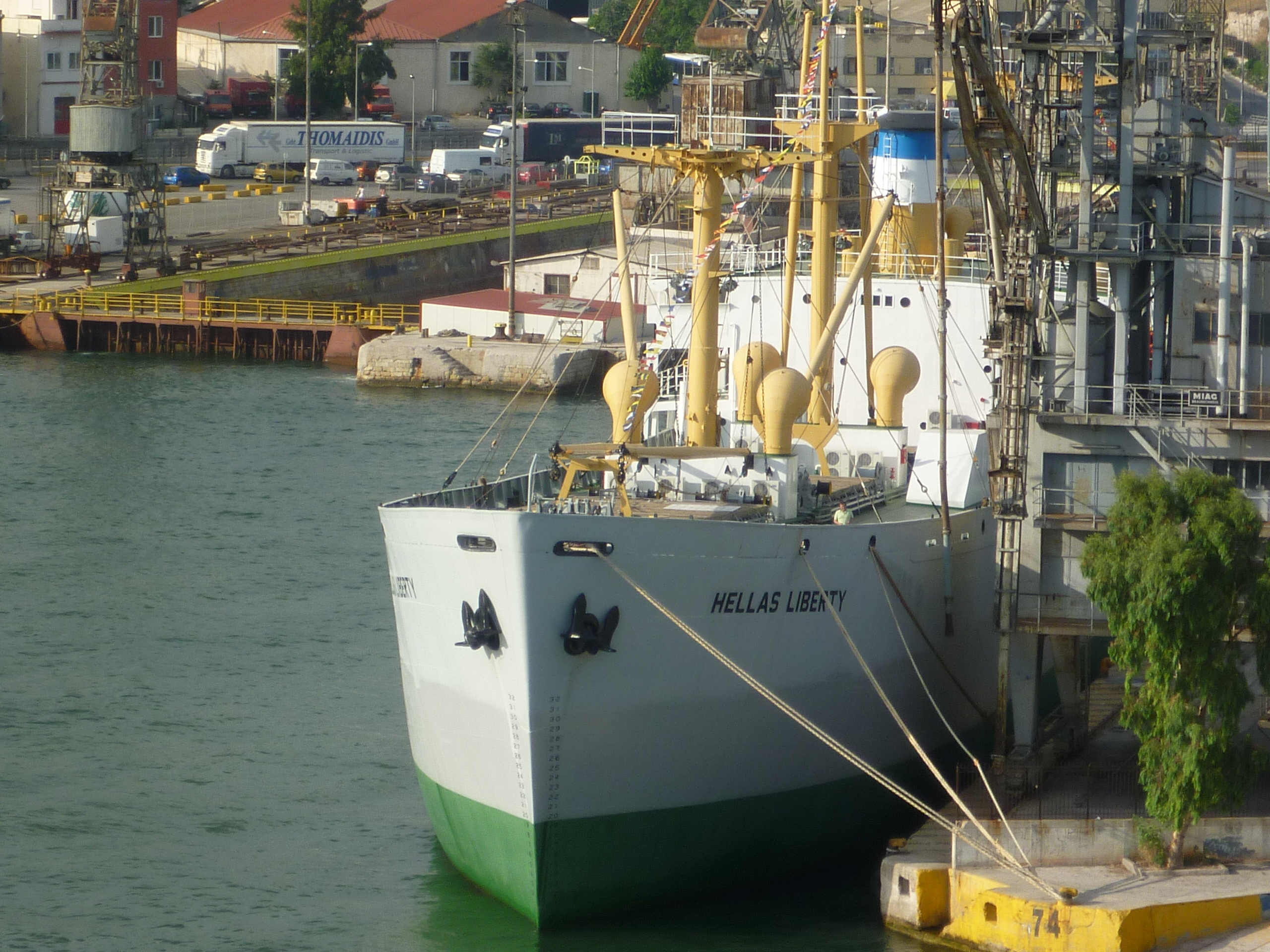 Hellas Liberty, ex Arthur M. Huddell, one of the last surviving Liberty cargo ships, in Piraeus Harbour.